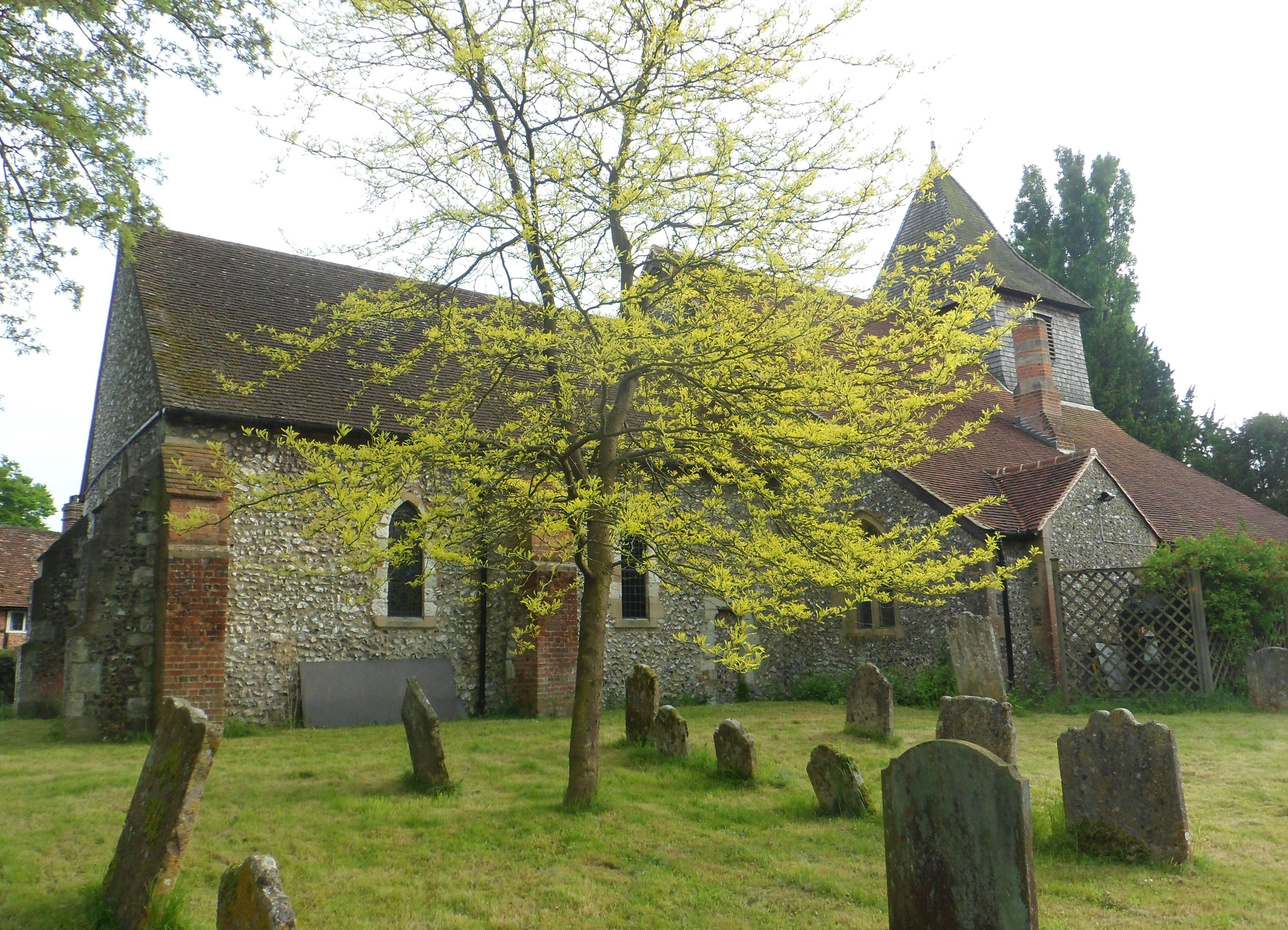 St Thomas of Canterbury's Church, The Street, East Clandon, Borough of Guildford, Surrey, England.